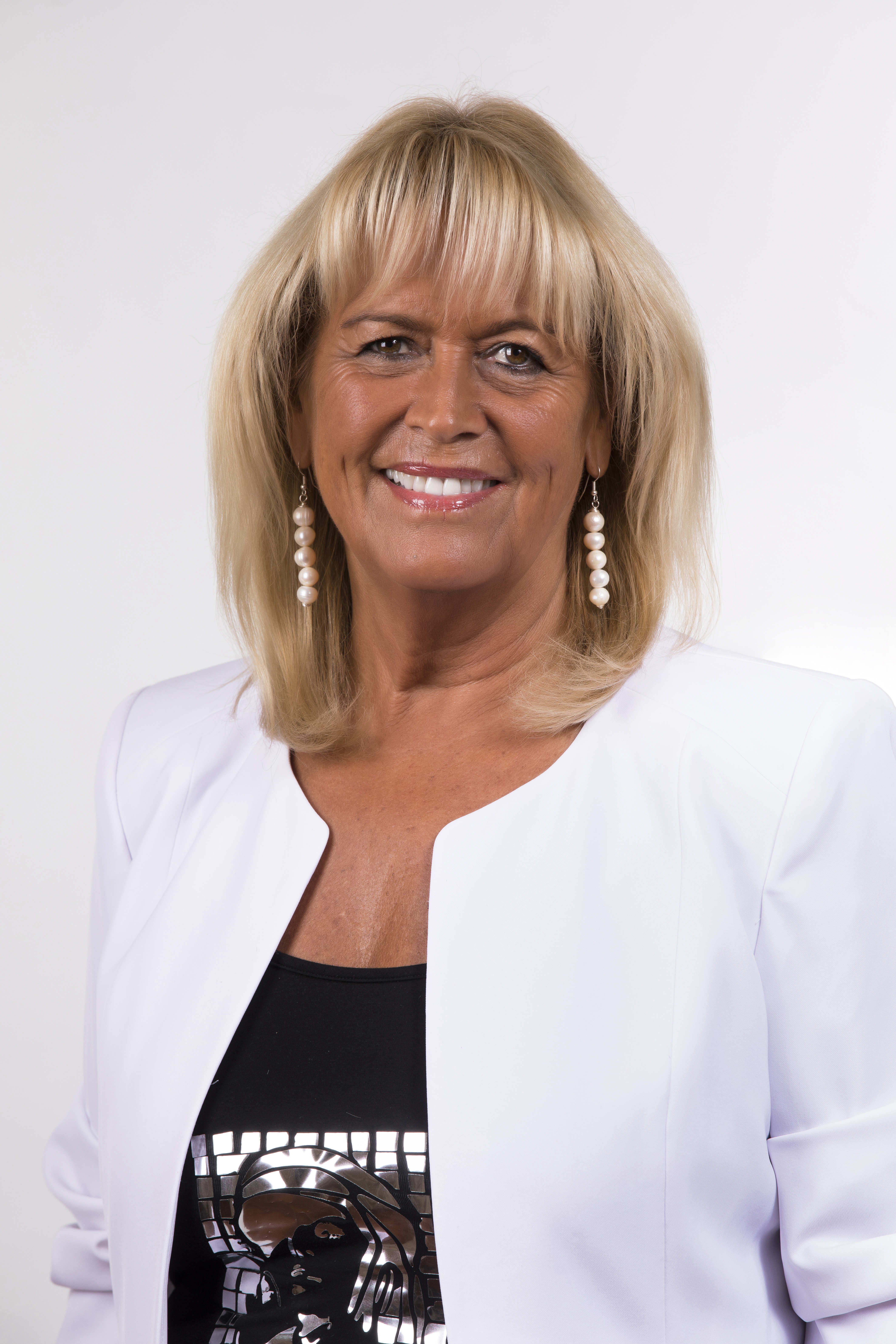 Fotografía oficial de diputados periodo 2018-2022.Fotos: Christel Andler, René Lescornez, Johanna Zárate